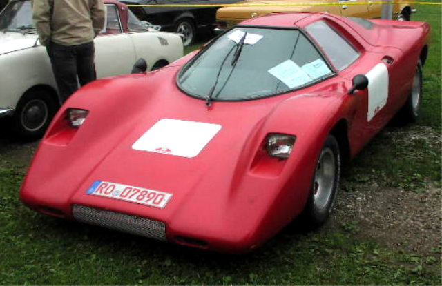 A Manta Montage, an American replica of the McLaren M6GT using VW Beetle underpinnings